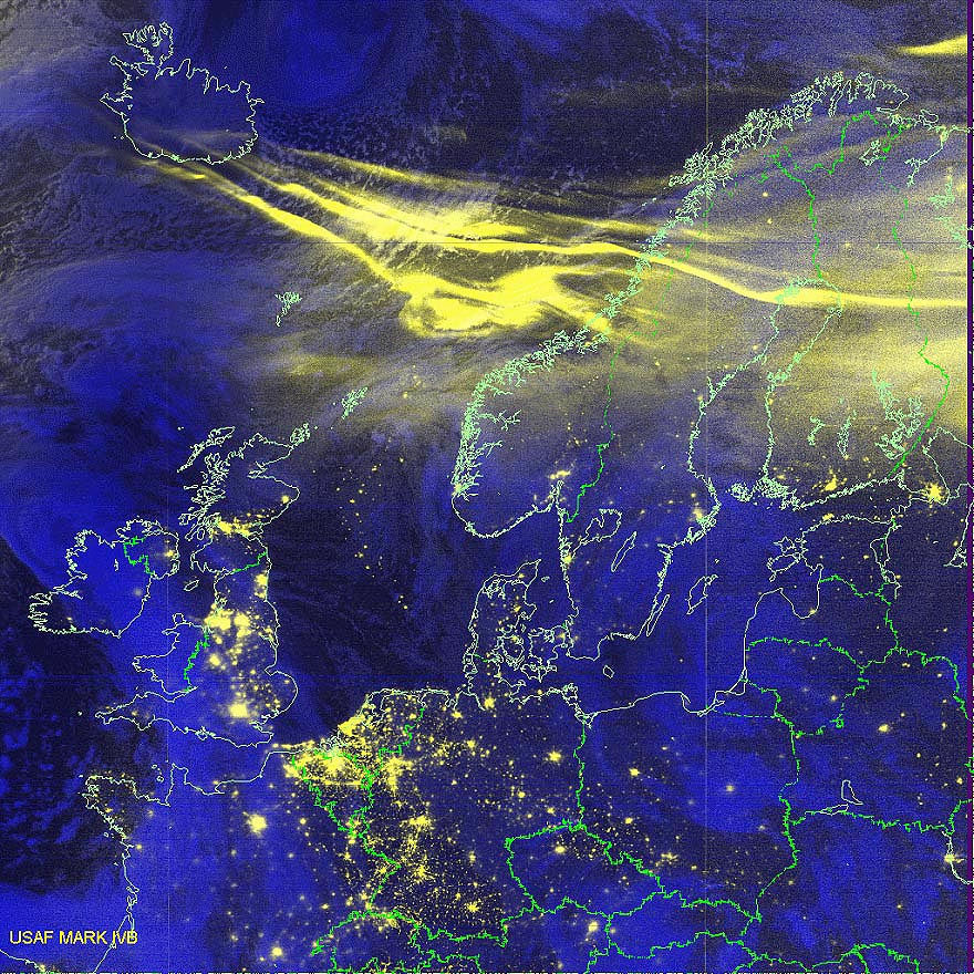 Composite image of an aurora seen by the DMSP satellite on 30 October 2003